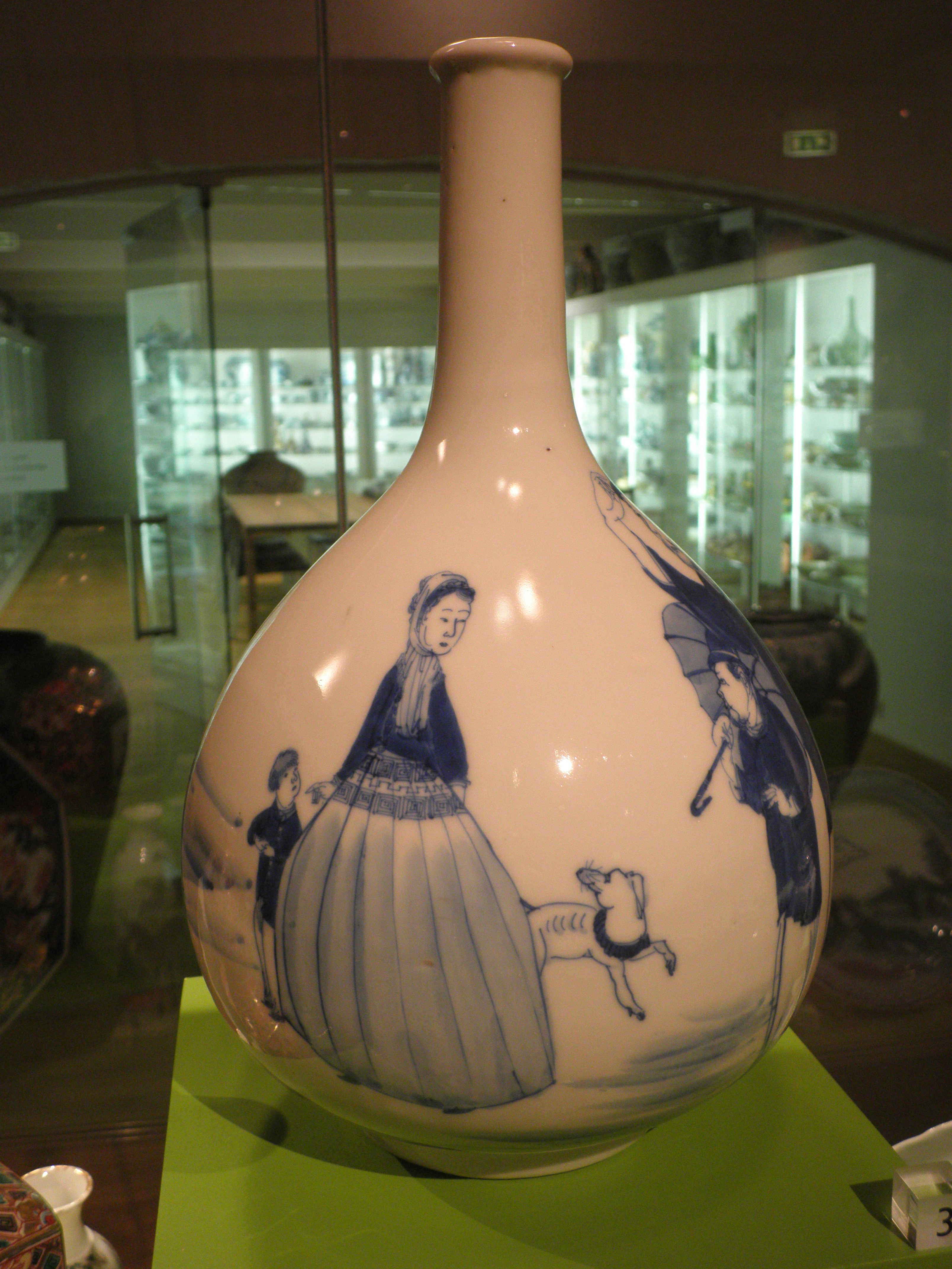 Japanese vase depicting Titia Bergsma, her husband (Jan Cock-Blomhoff, opperhoofd van Deshima) and son Jan.